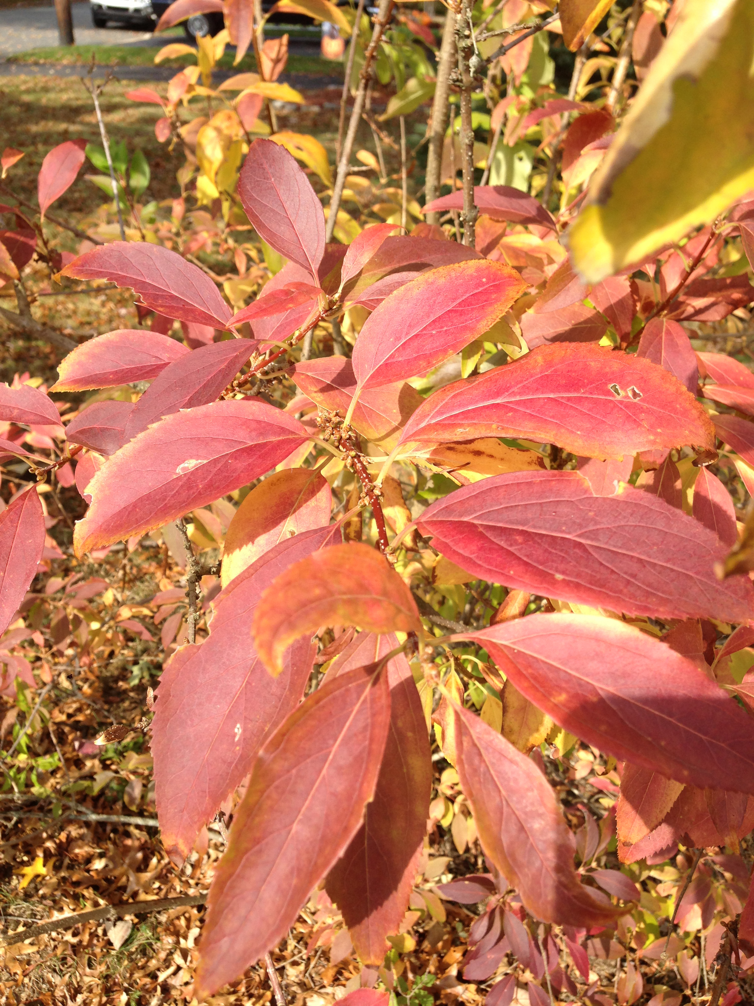 Forsythia foliage during autumn in Ewing, New Jersey